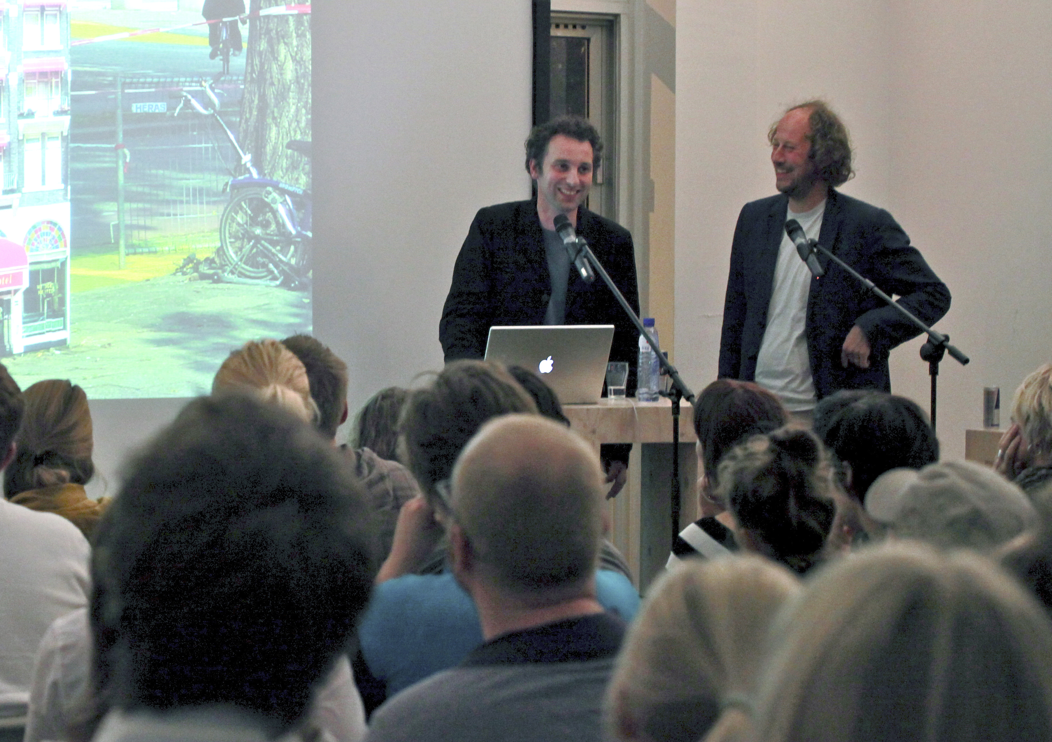 Rens Muis and Pieter Vos of 75B giving a lecture in Groningen, the Netherlands in 2009.